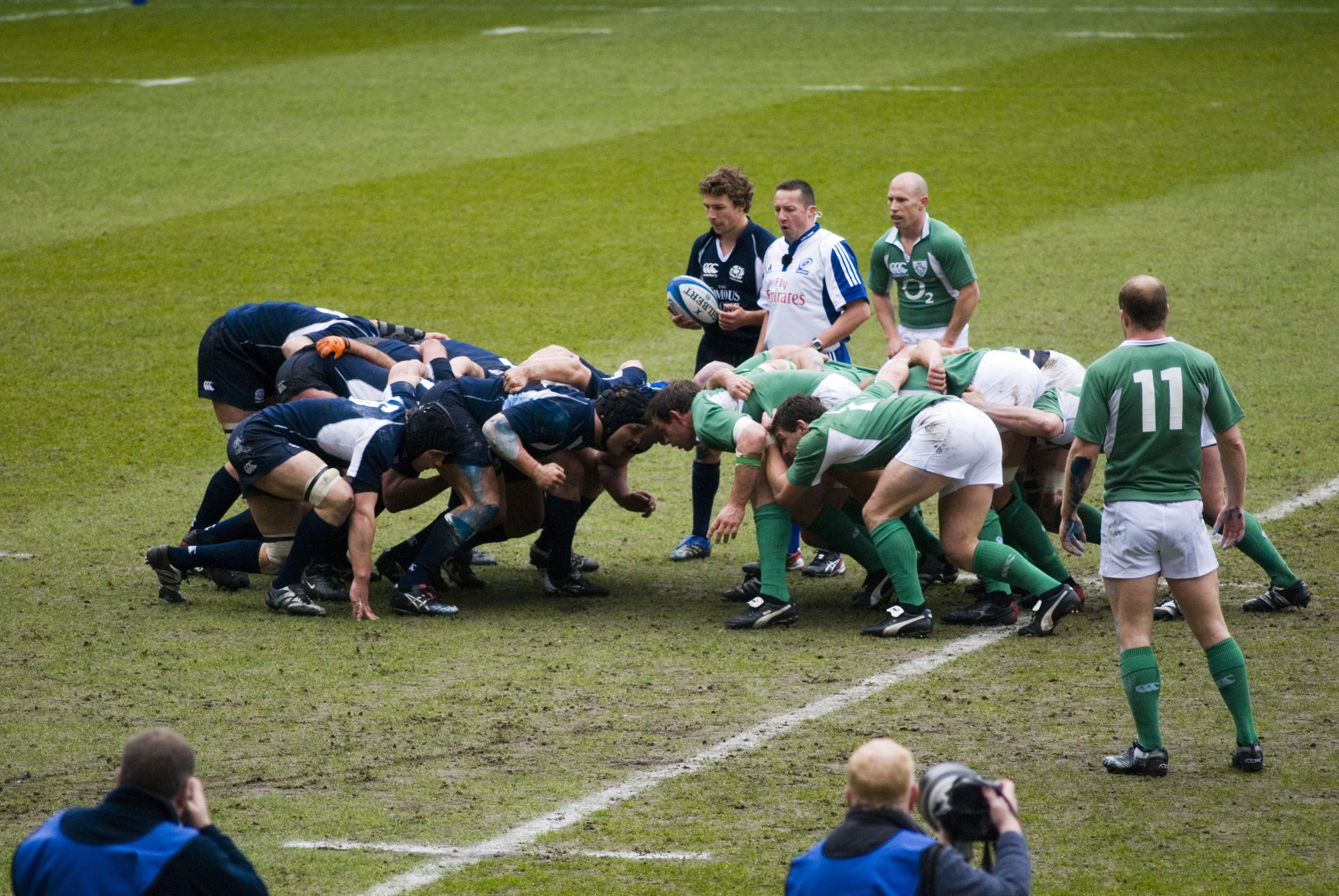 Scotland vs Ireland scrum at Edinburgh during the 2007 Six Nations Championship